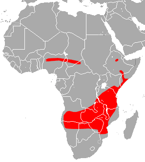 Striped Leaf-nosed Bat (Hipposideros vittatus) range